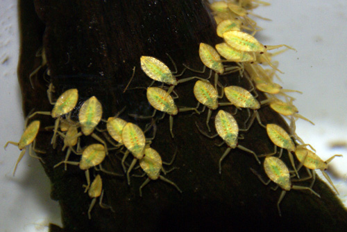 Lethocerus babys